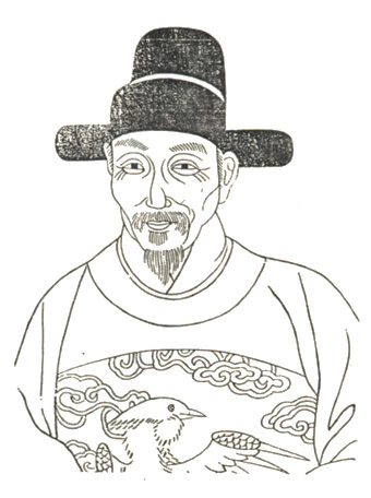 Cao Ji, politician of the Ming Dynasty.